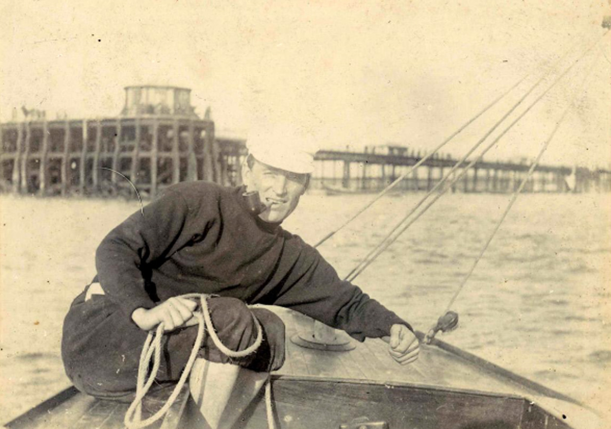 Mark Foy (1865-1950) in a sailing boat